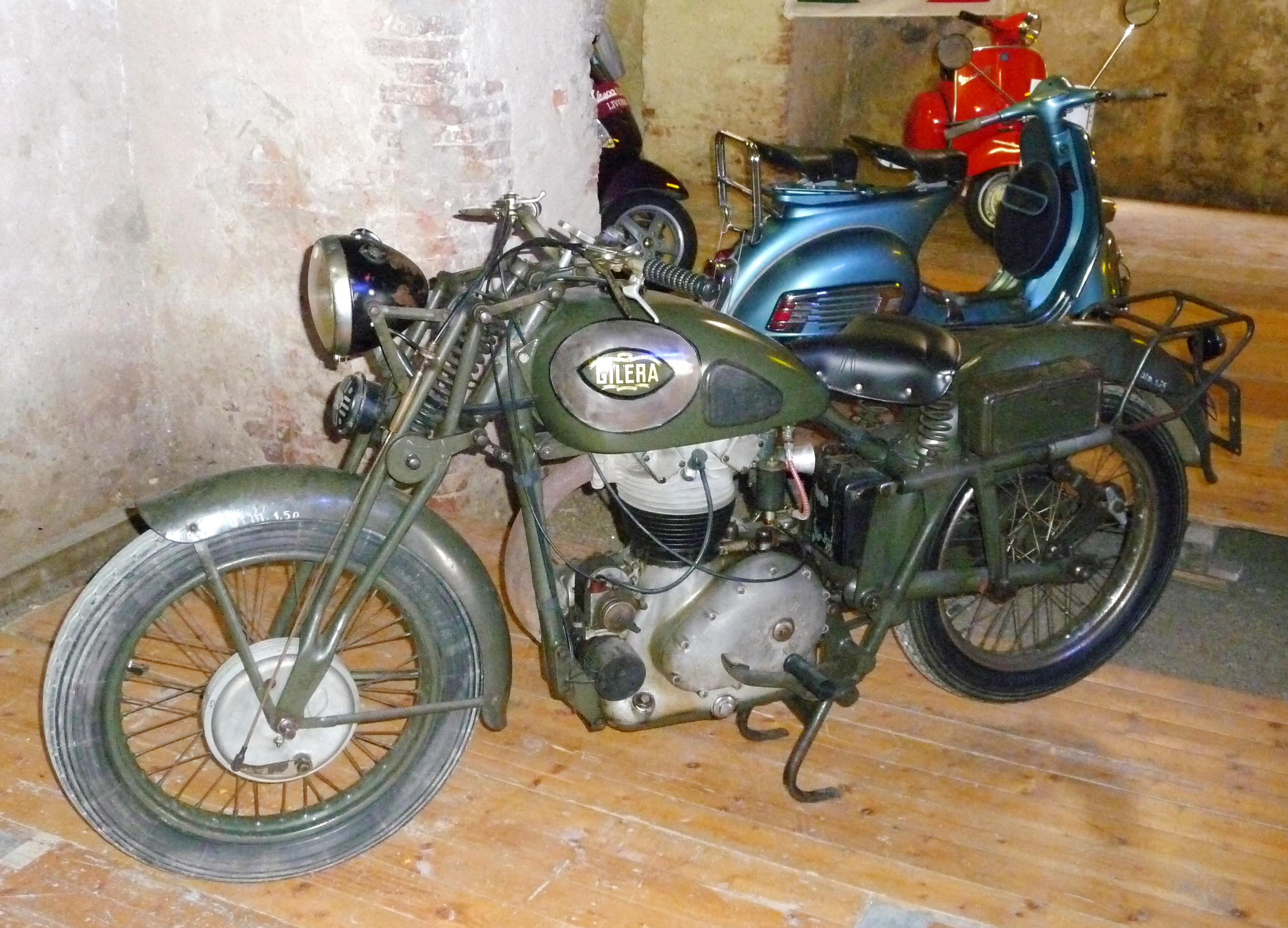 Gilera motorcycle